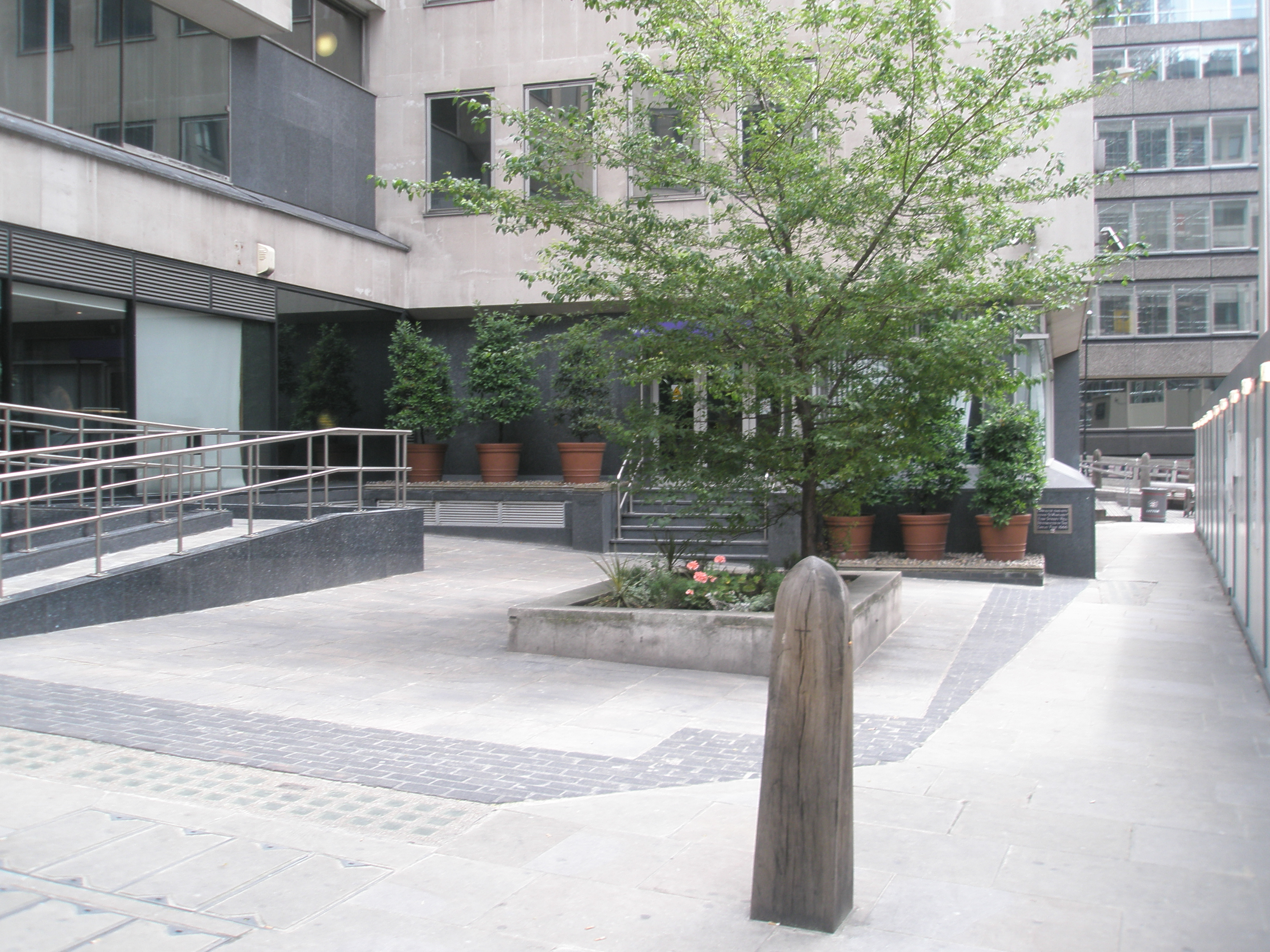 Monument base, City of London